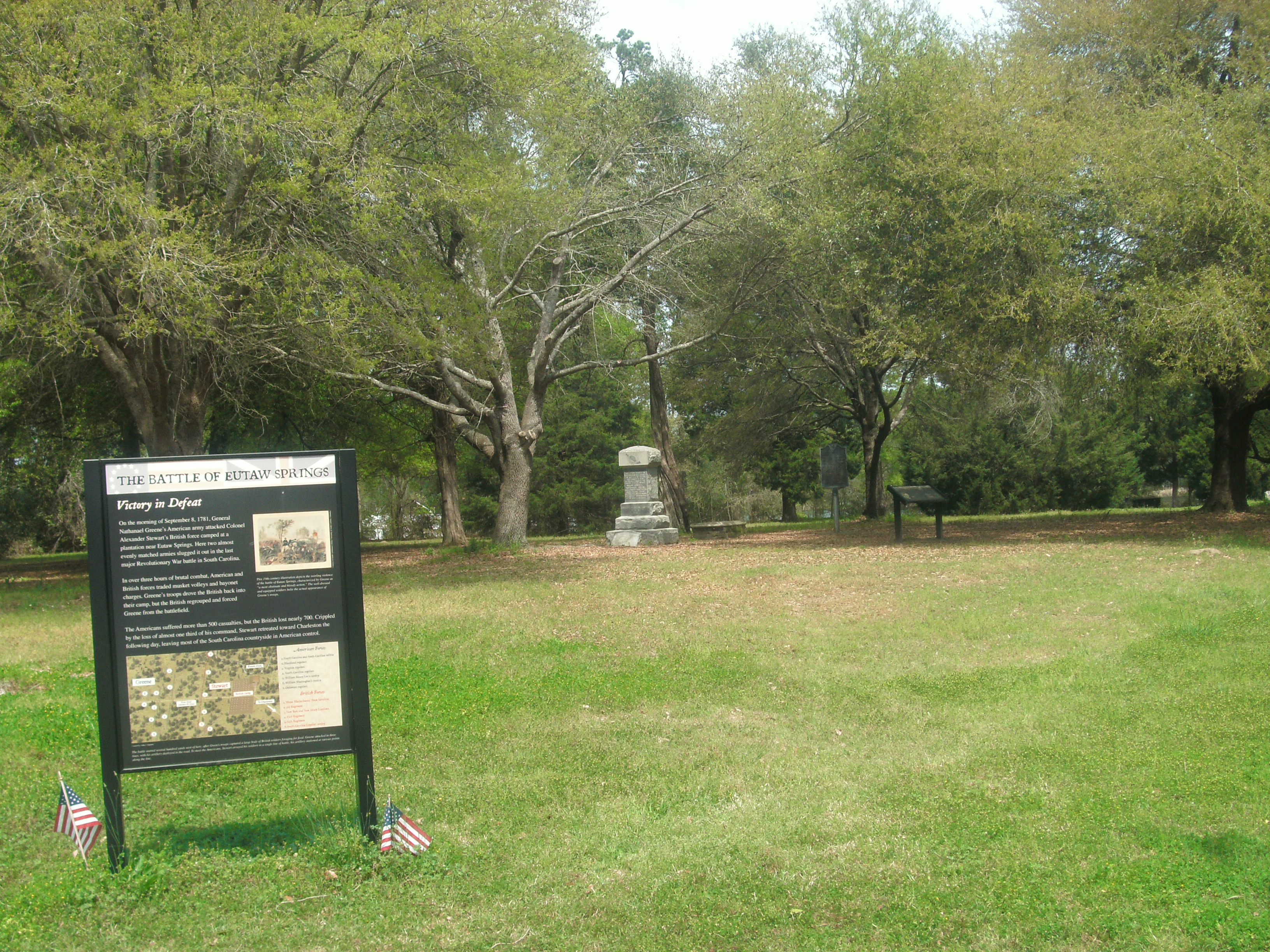 Taken by me in 2015 GEDSC DIGITAL CAMERA